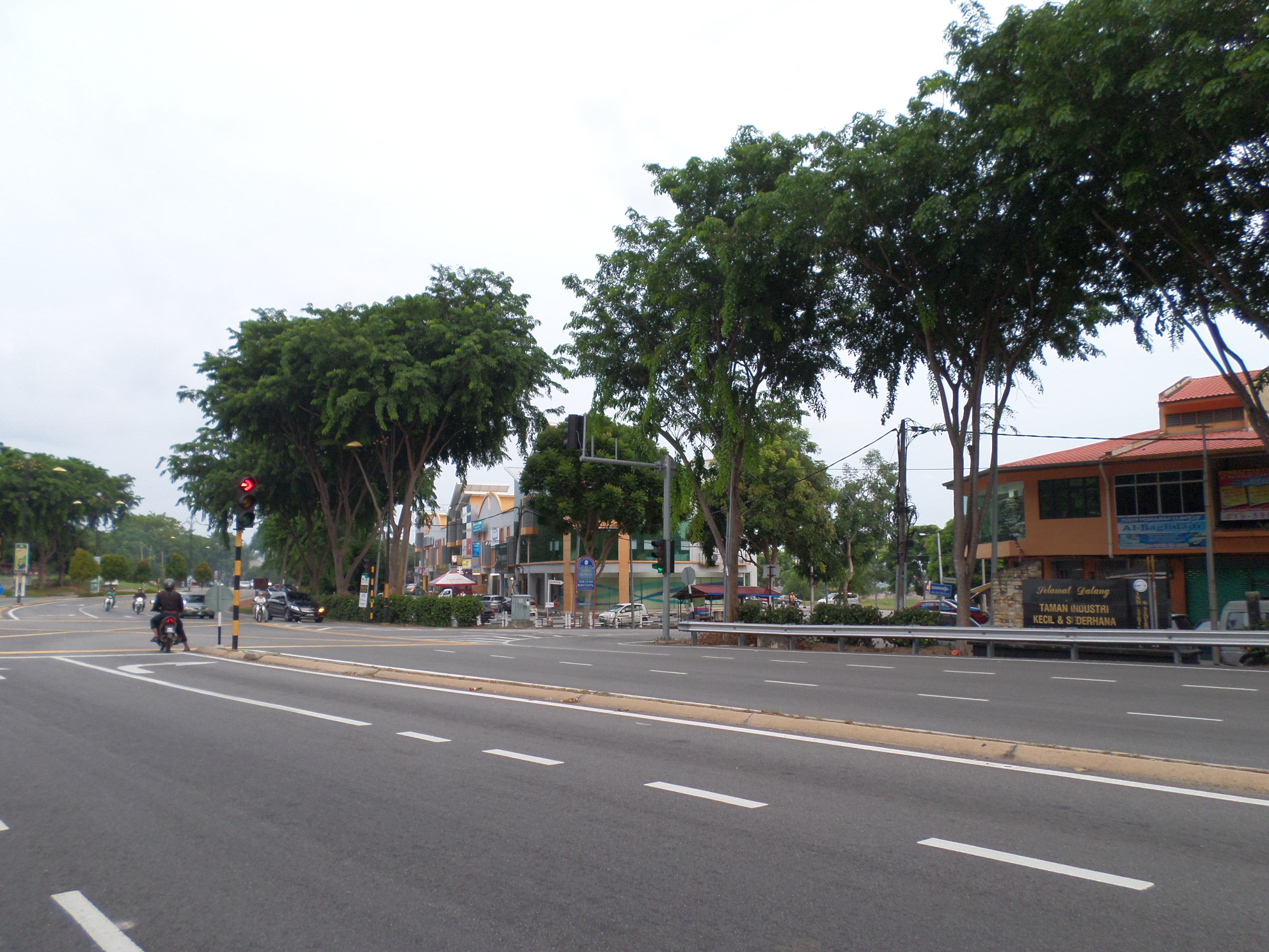 Bukit Katil, Malacca, MalaysiaBahasa Melayu: Bukit Katil, Melaka, Malaysia